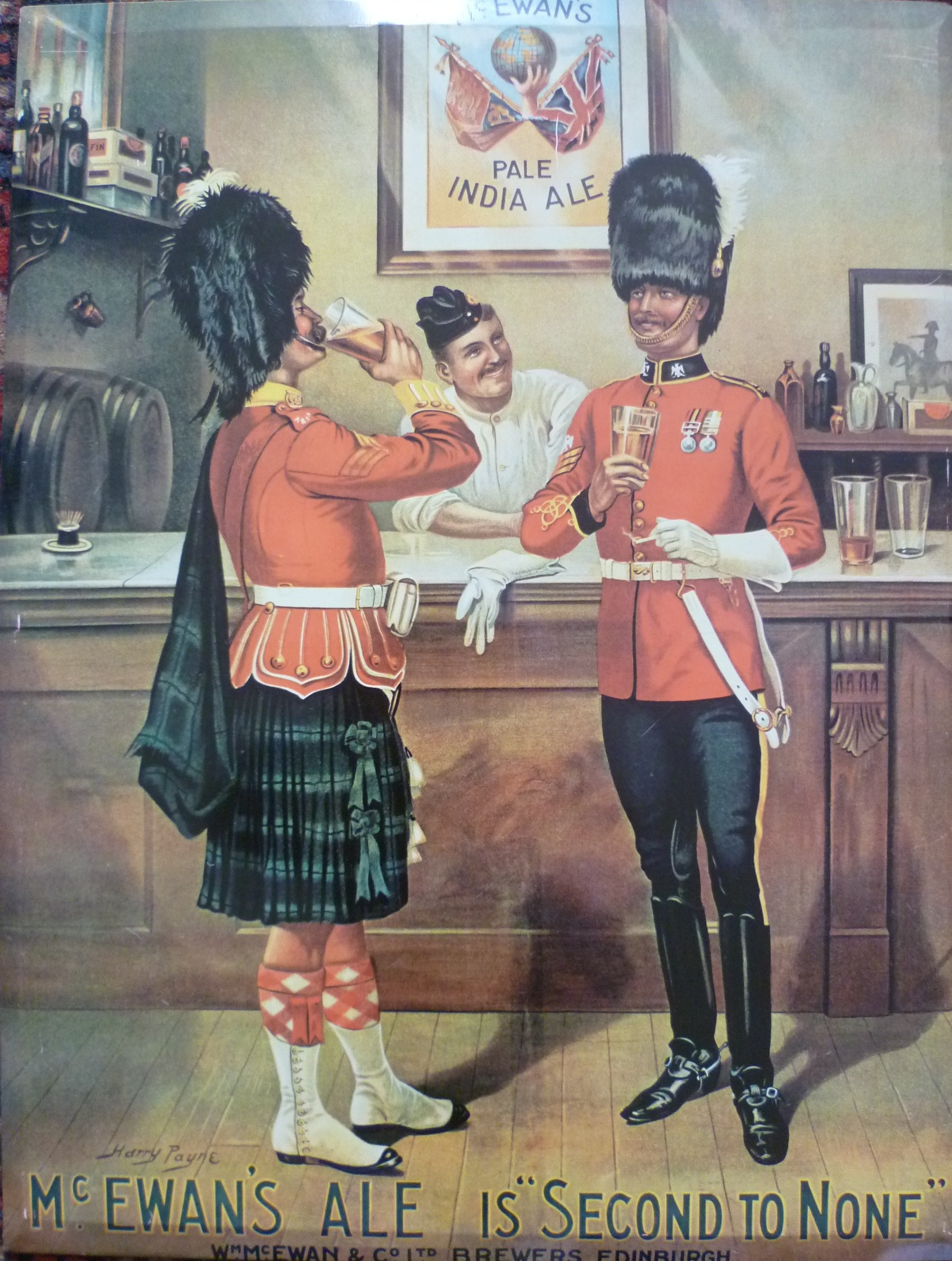 McEwan's Beer advertisement, 1906 (the enamel panel found in an Edinburgh antique dealer's may be a company reproduction of the original). The regiments represented are the Argyll and Sutherland Highlanders (left) and the Royal Scots Dragoon Guards (right).